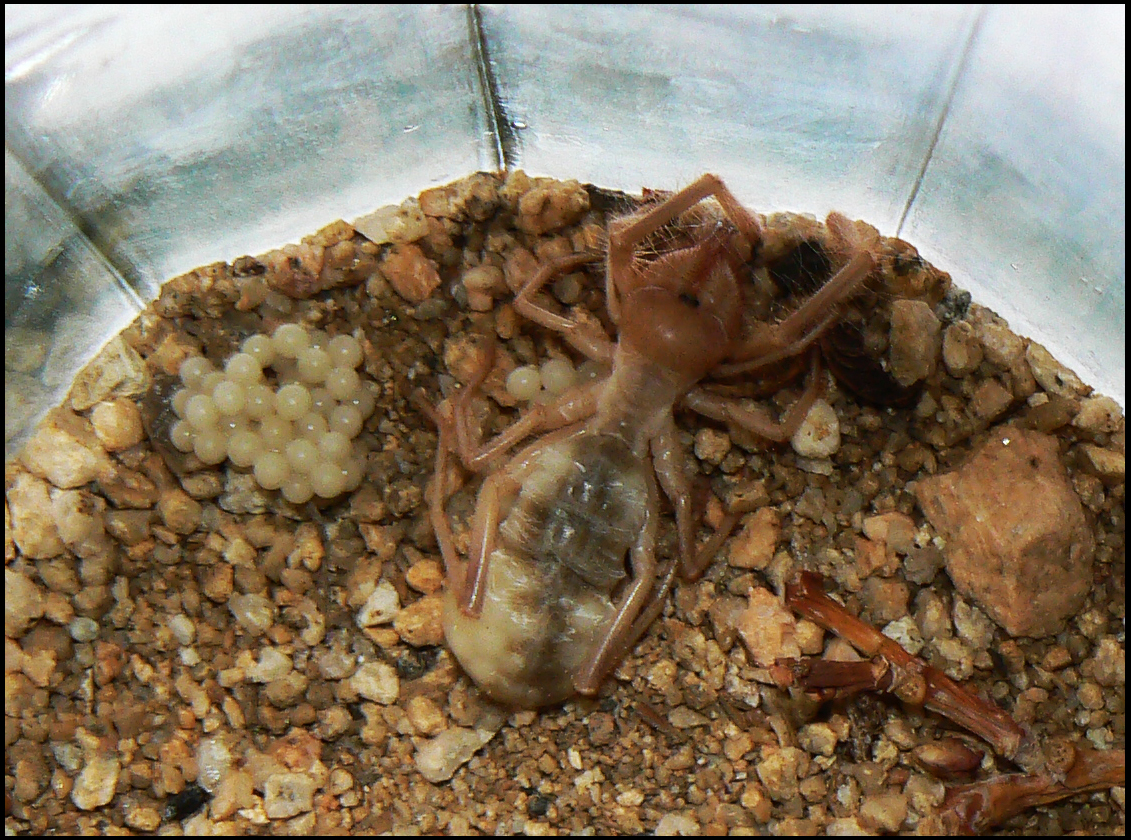 Photograph of a Solifugae aka camel spider, wind scorpion, sun scorpion and sun spider laying eggs. You can see eggs that haven't been laid in the translucent abdomen of the creature.